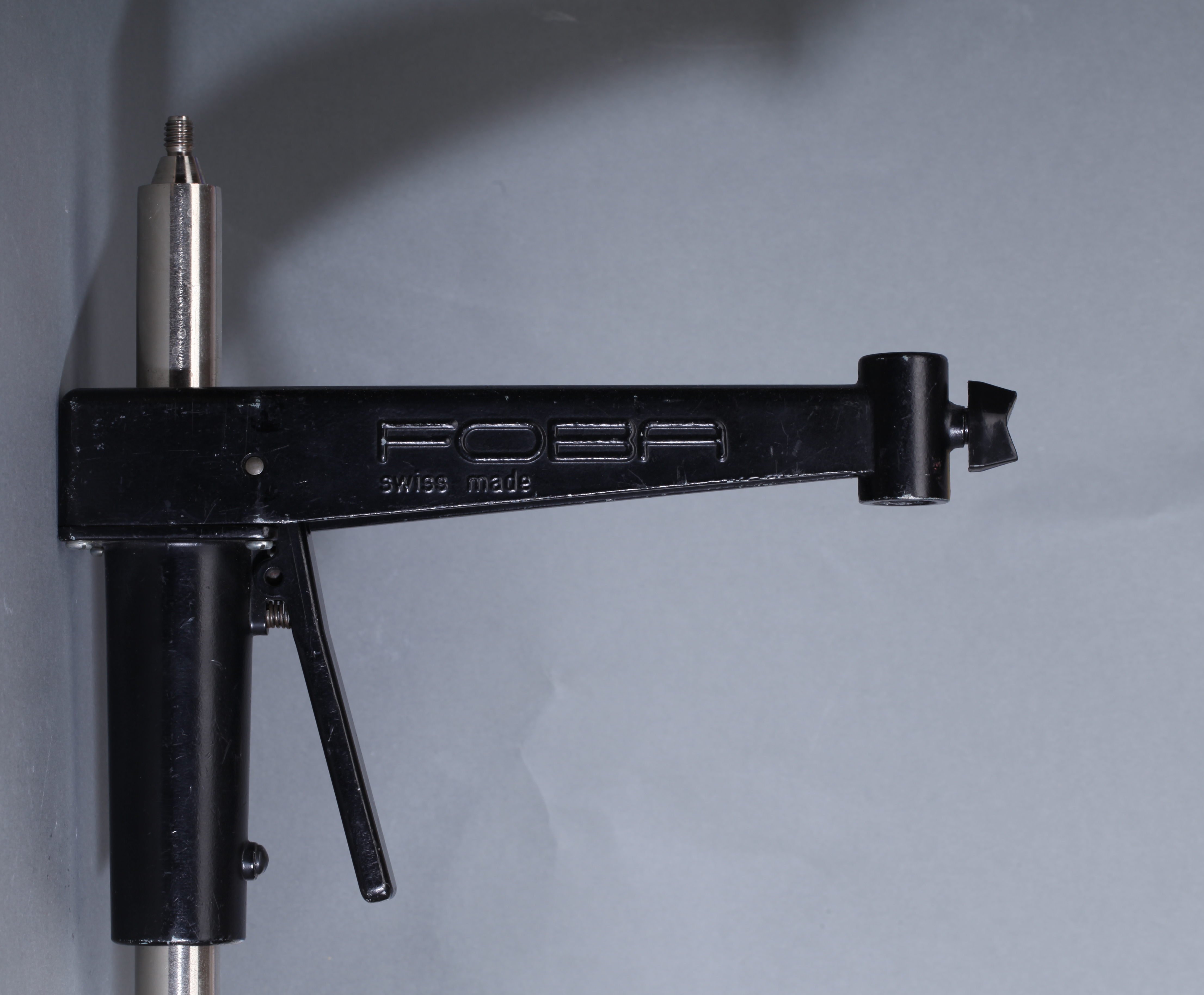 Foba flash light holder, to easily adjust position on pipe.